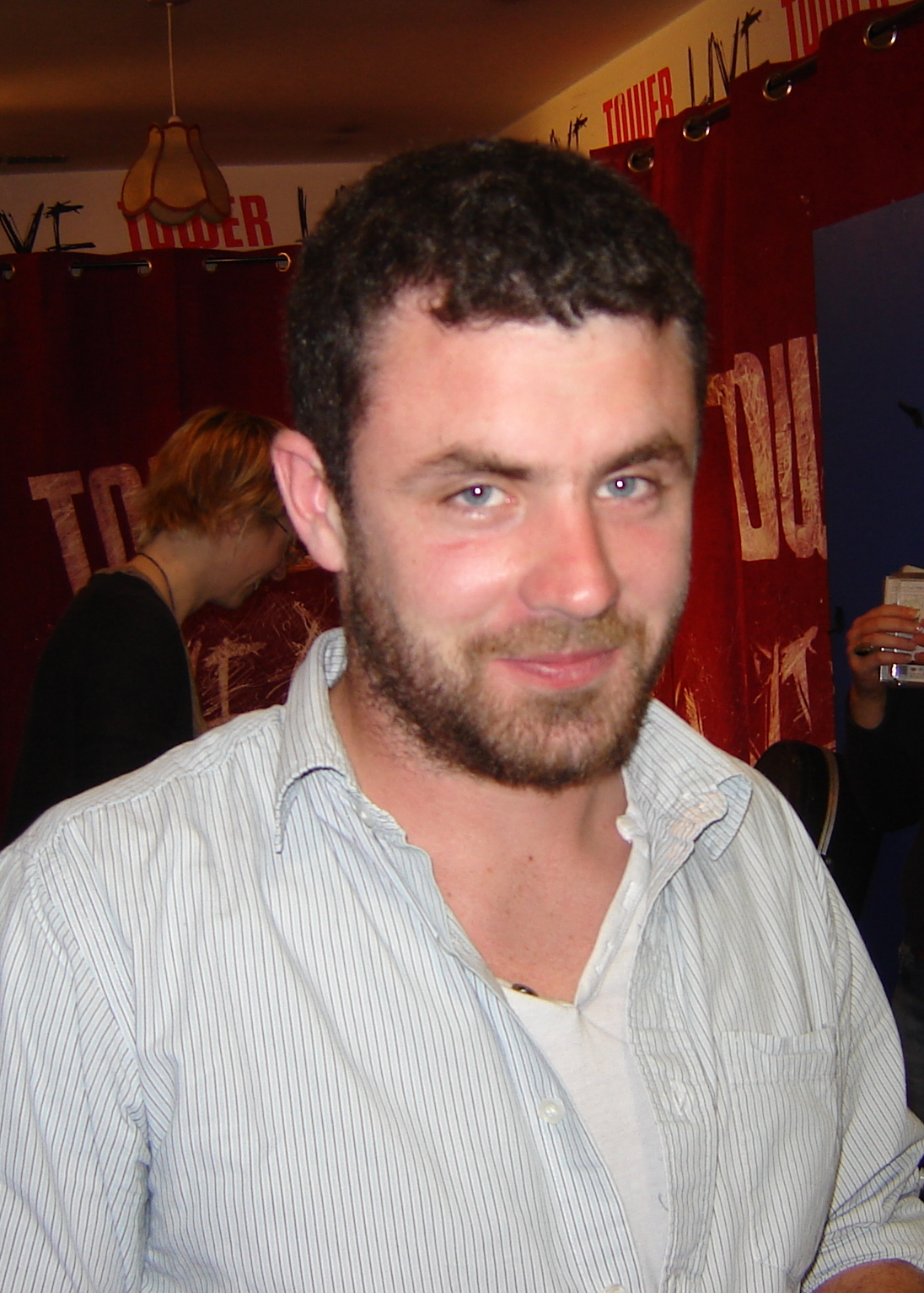 Mick Flannery, Irish singer songwriter in Dublin.